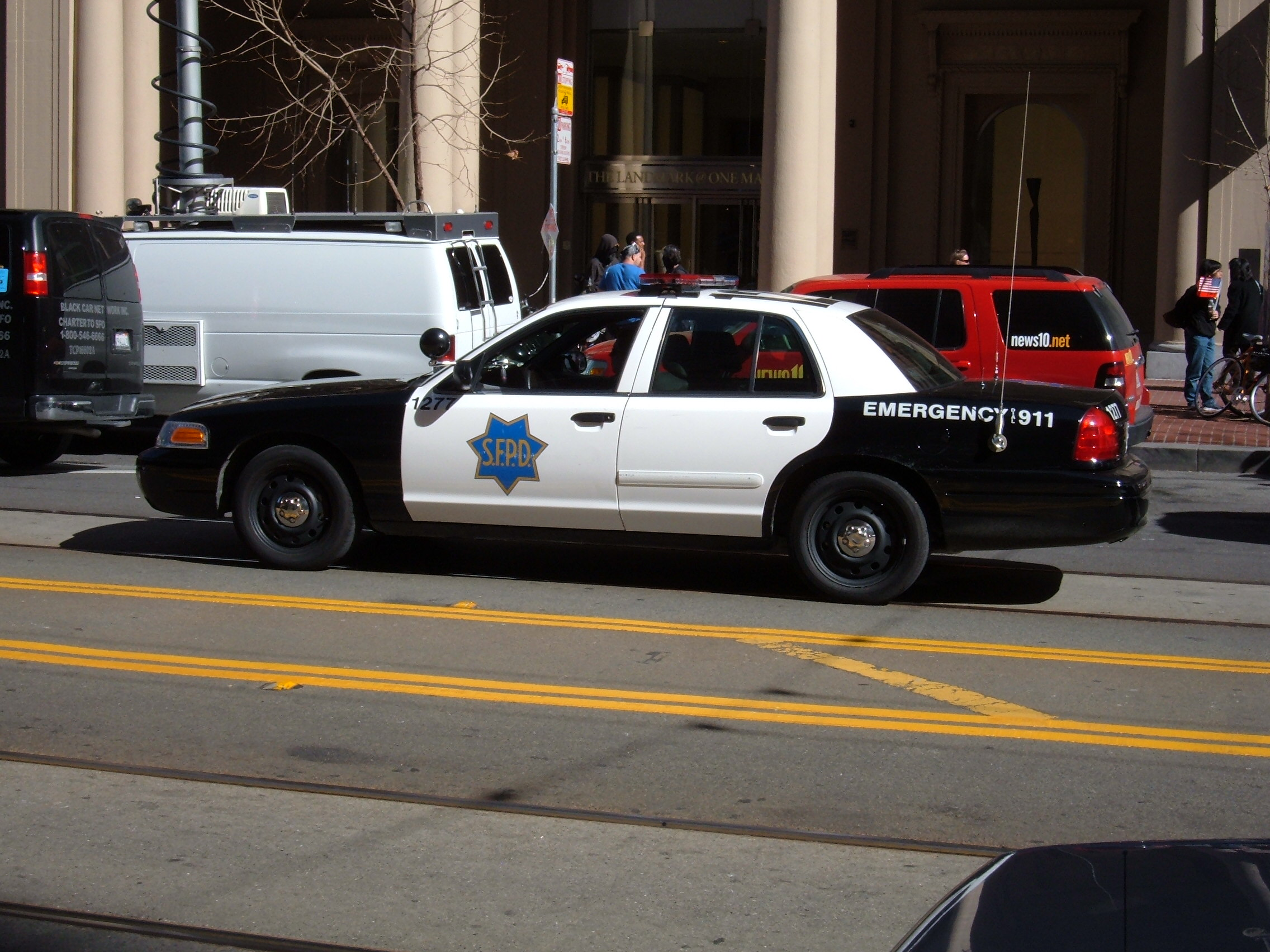 A San Francisco Police Department cruiser on Market Street during the 2008 Olympic Torch relay.